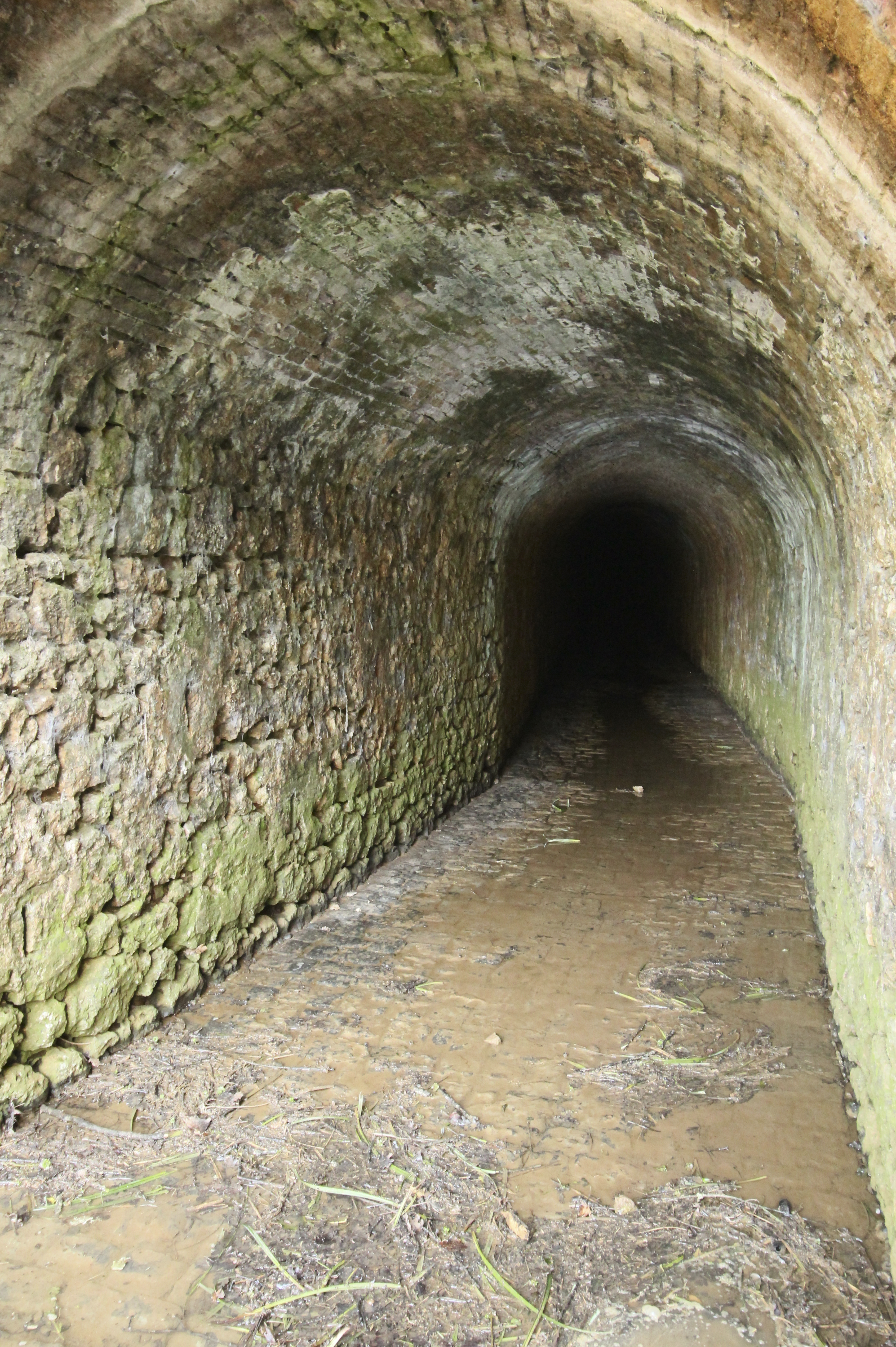 Water channel Canale del Granduca, Pian del Lago, Siena, Province of Siena, Tuscany, Italy